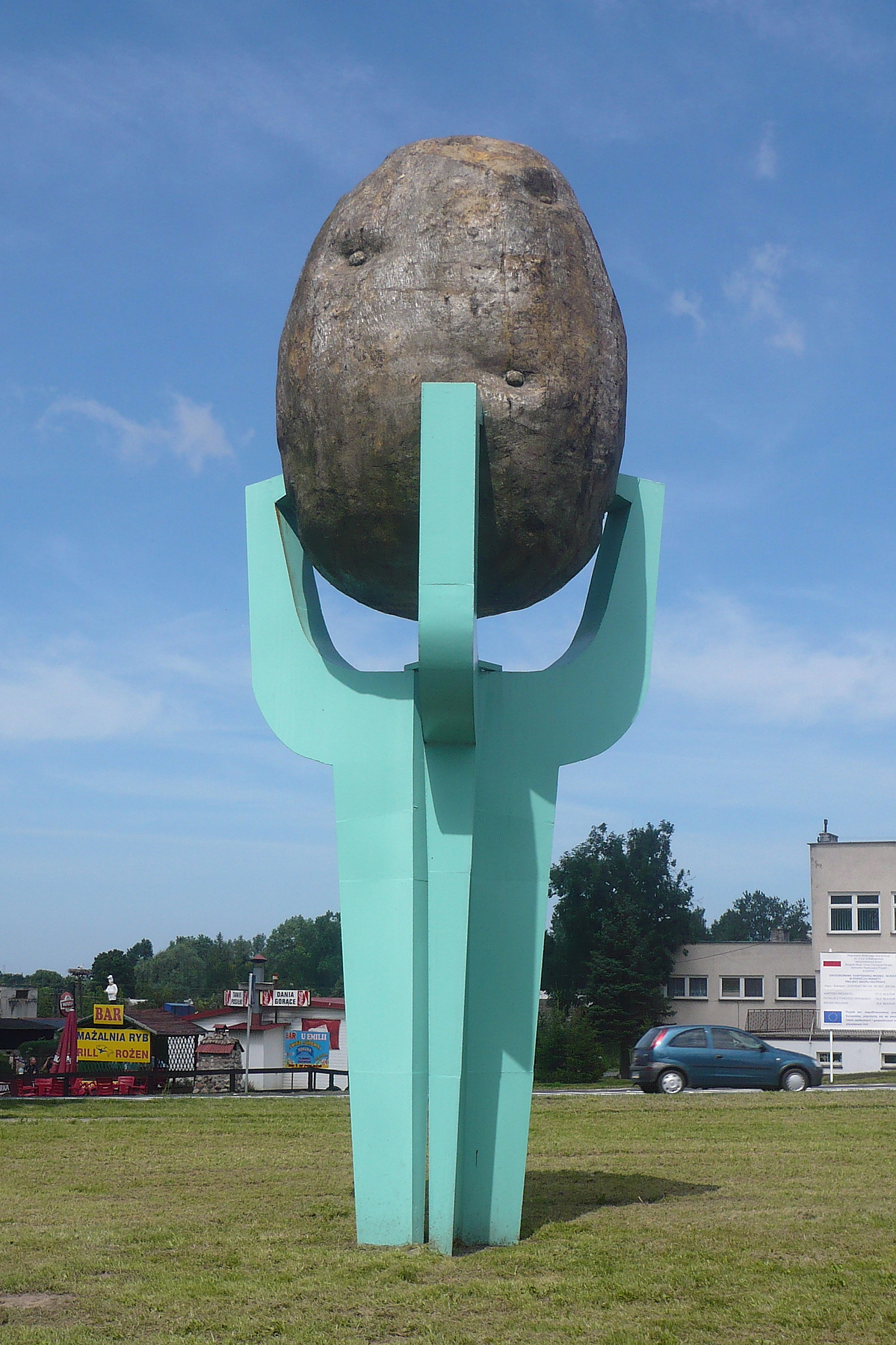 Potato monument in Biesiekierz, Poland